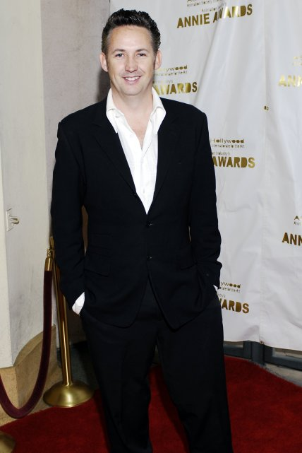 Comedian Harland Williams at the 2006 Annie Awards red carpet at the Alex Theatre in Glendale, California.